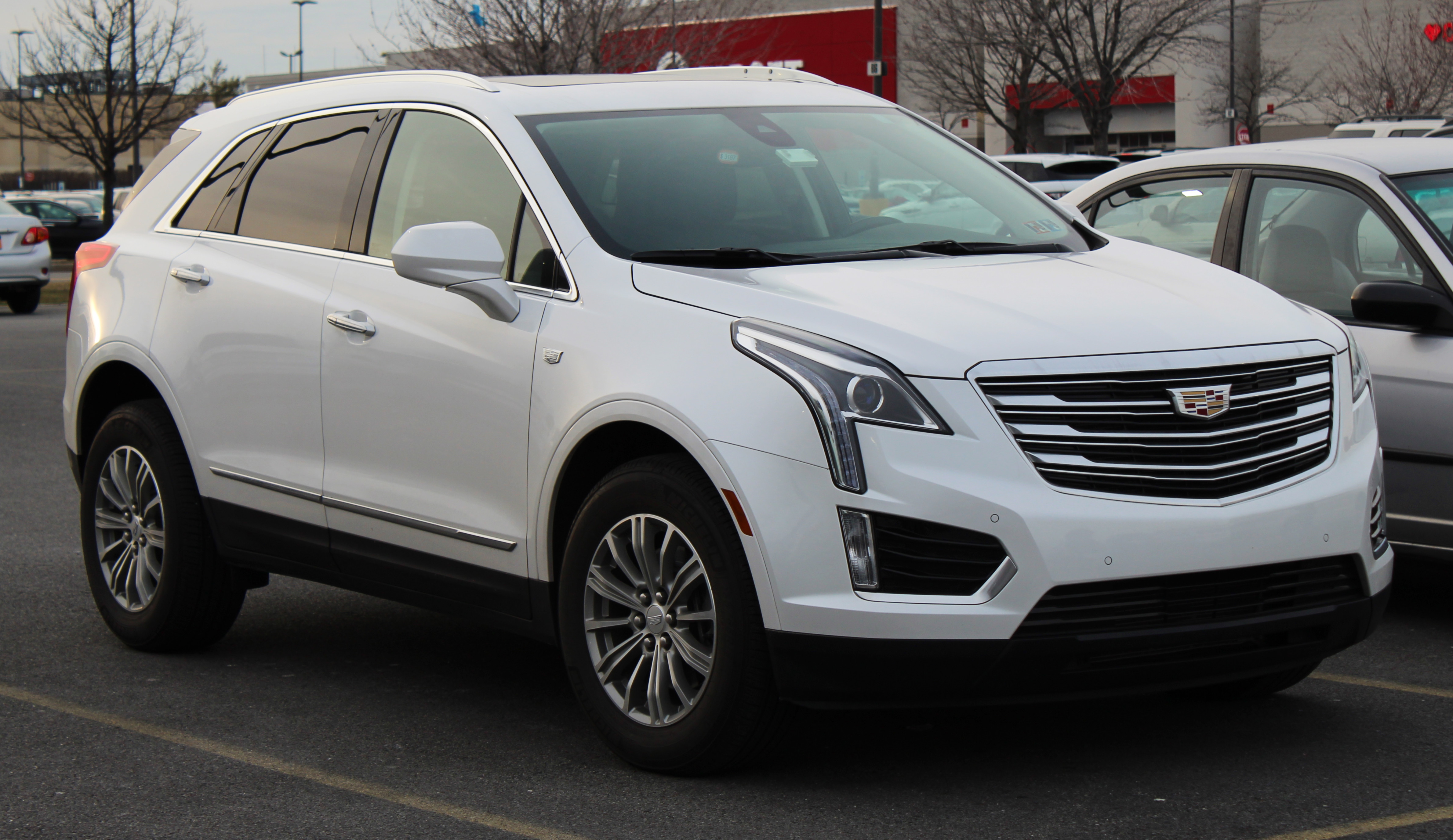 A 2019 Cadillac XT5 Luxury photographed in College Point, Queens, New York, USA